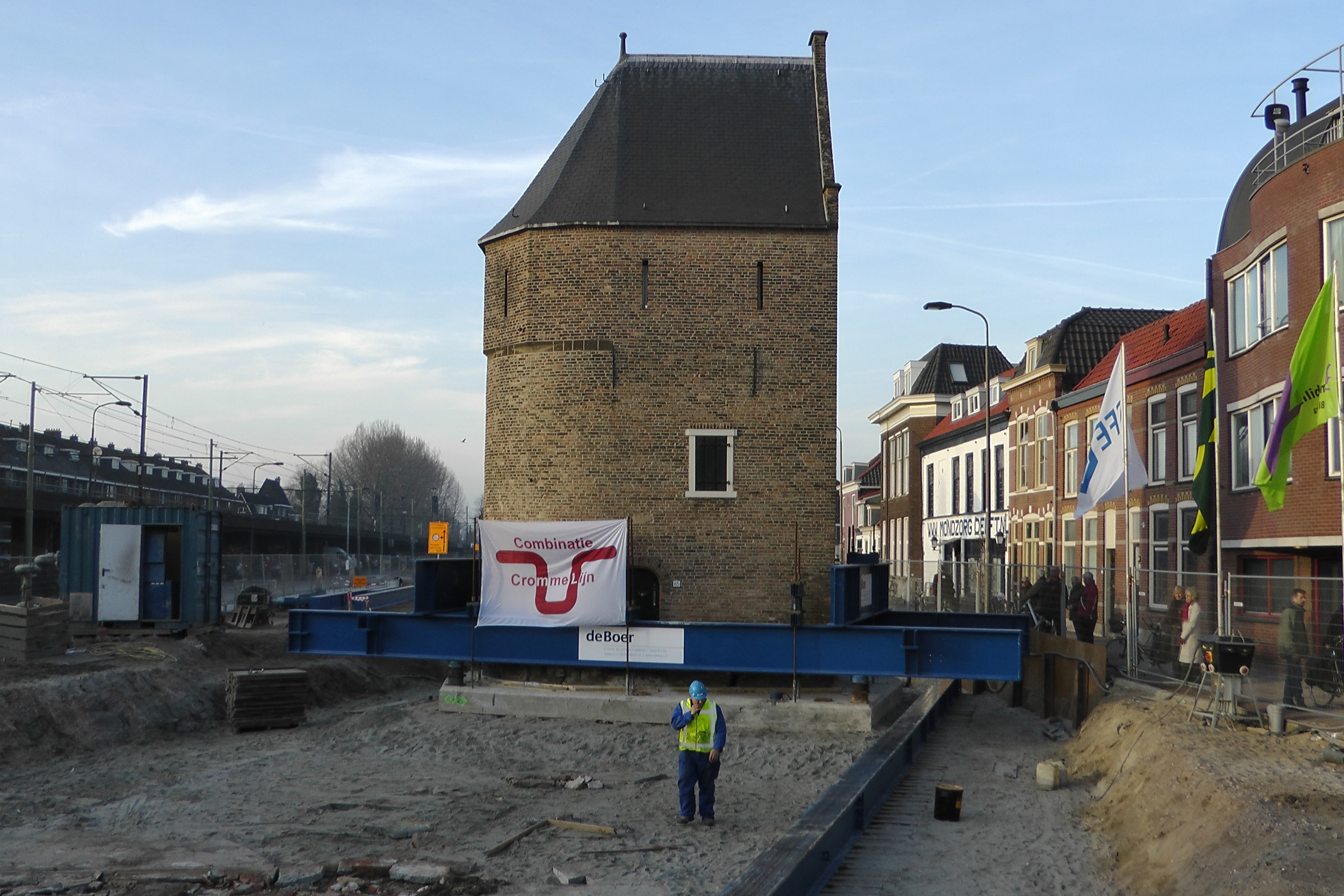 Bagijnetoren in Delft, The Netherlands. Building has just been relocated a few metres in favor of the construction of a train tunnel.